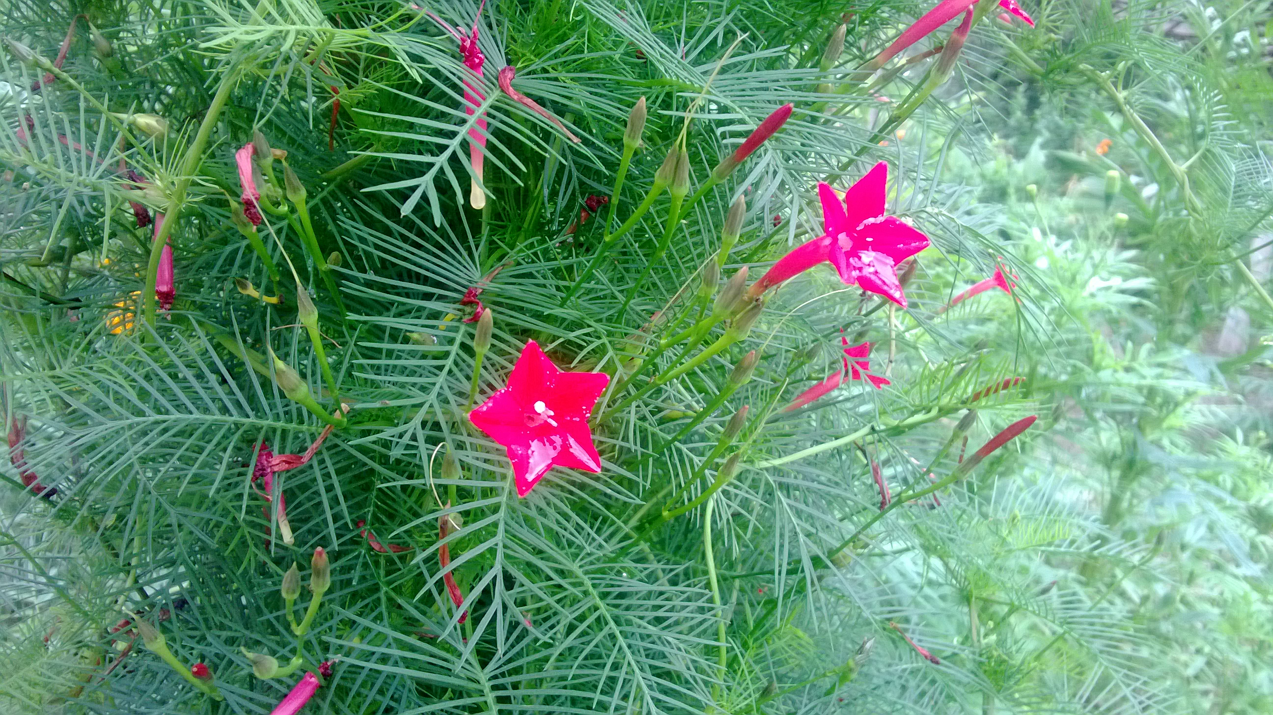 Ipomoea quamoclit in Panchkhal valley.